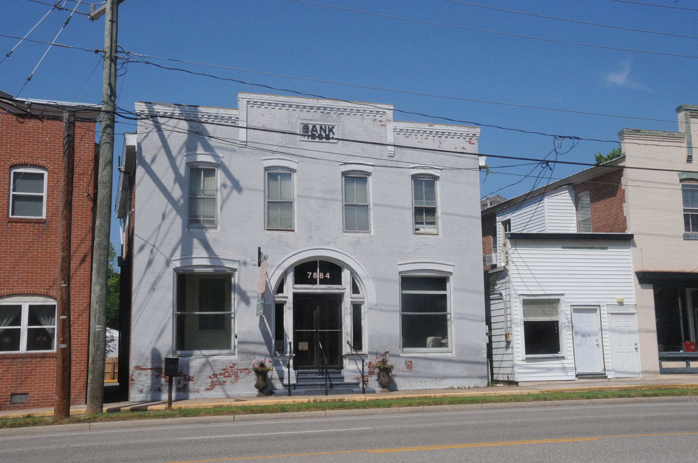 THIS IS THE OLD BANK LOCATED ON RICHMOND ROAD BETWEEN NUMBERS 7852 AND 7960